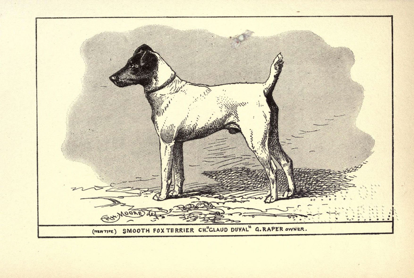 All about dogs; a book for doggy people New York,J. Lane,1900.